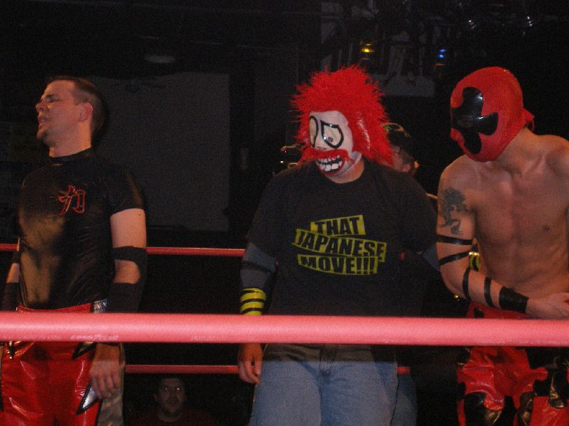 Professional wrestlers Mike Quackenbush (left), Shane Storm (middle), and Jigsaw (right) at a Chikara show in February 2007.